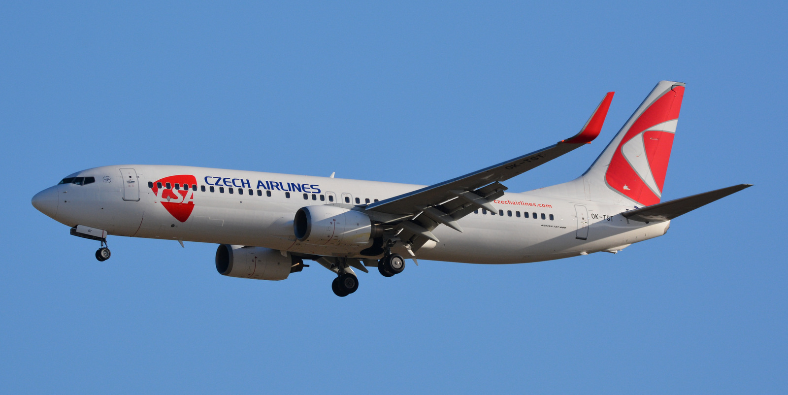 Paris-Charles de Gaulle Airport